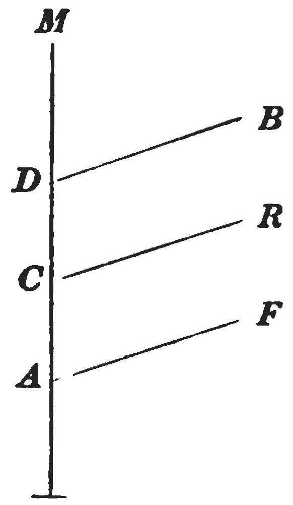 Diagram of embryo development from Vestiges